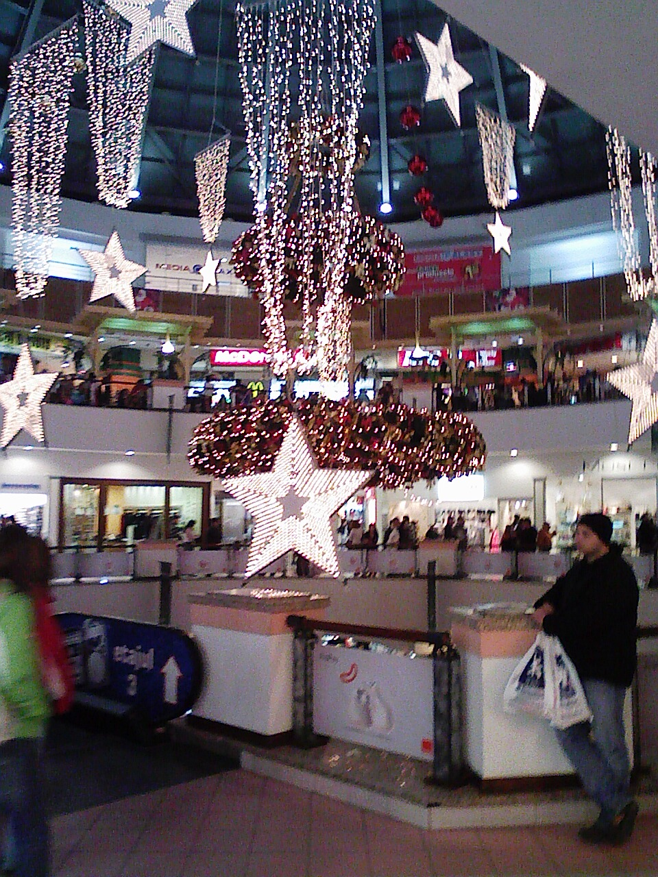 București Mall, Main hall, December 2006